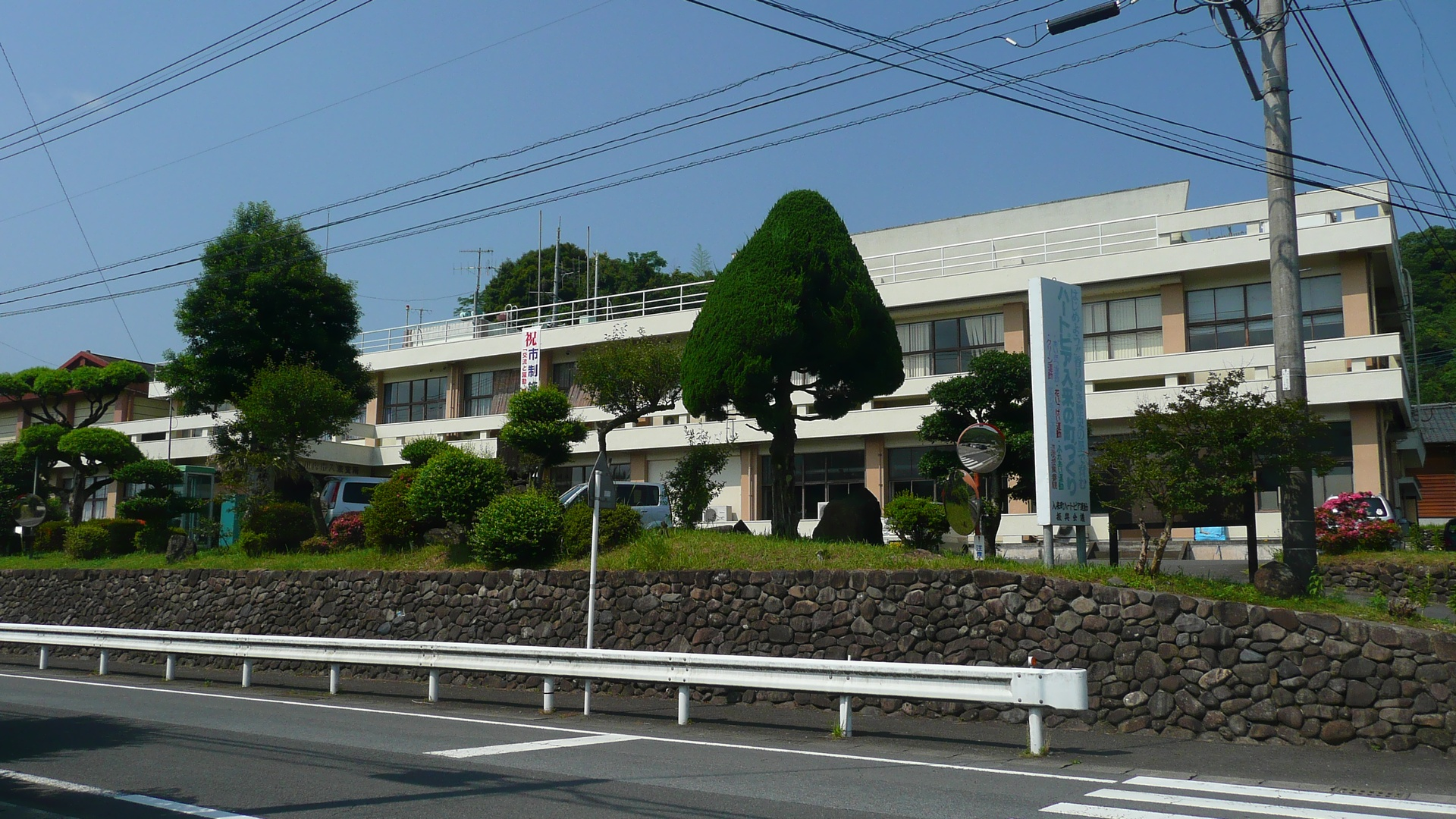 Satsumasendai City Office Iriki Branch (Former Iriki TownOffice - Kagoshima Prefecture, Japan)